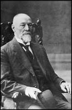 Daniel Waden, father of the Finnish telephone